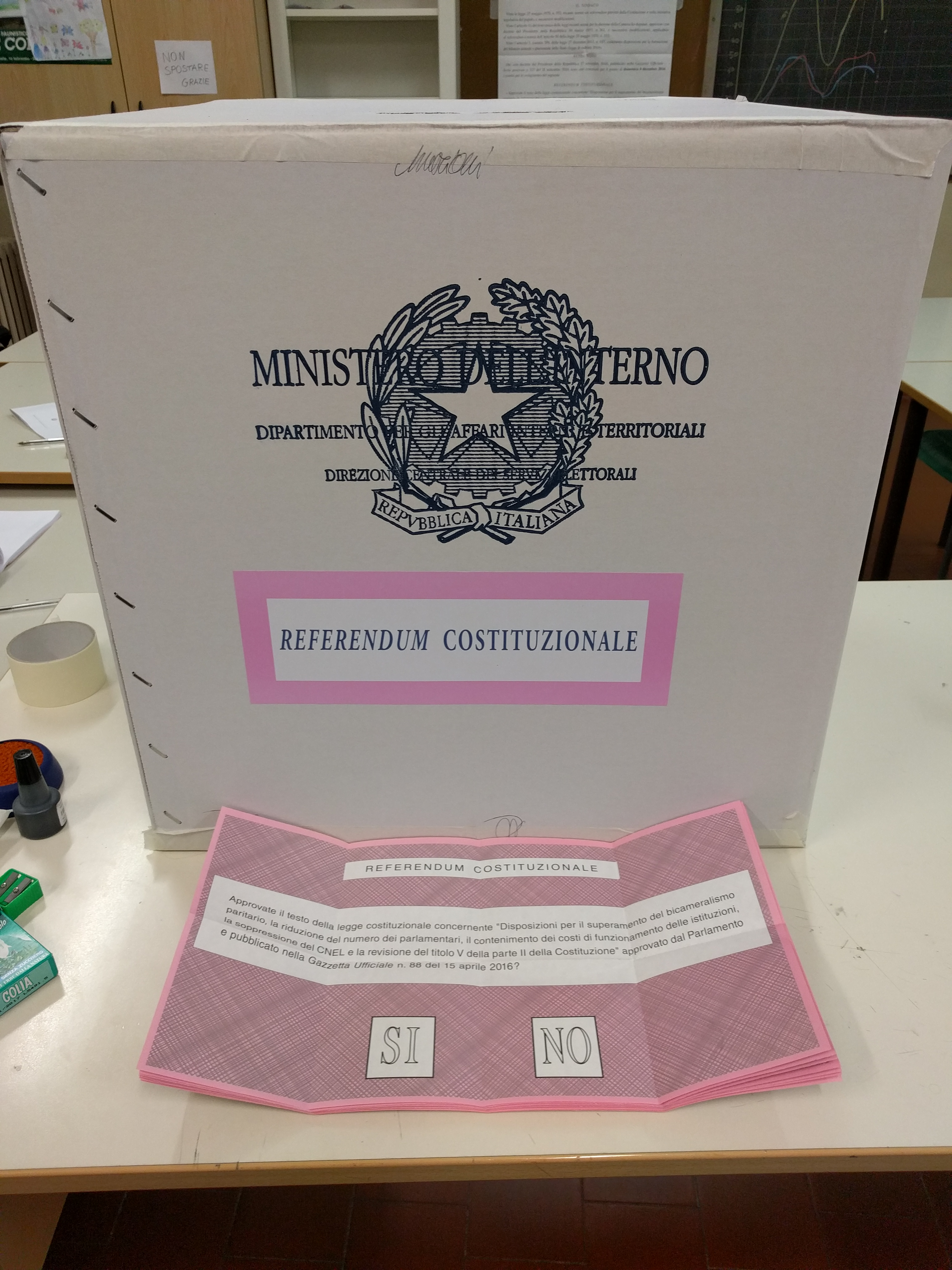 Voting booth and a ballot paper of the Italian constitutional referendum on December 4th, 2016.